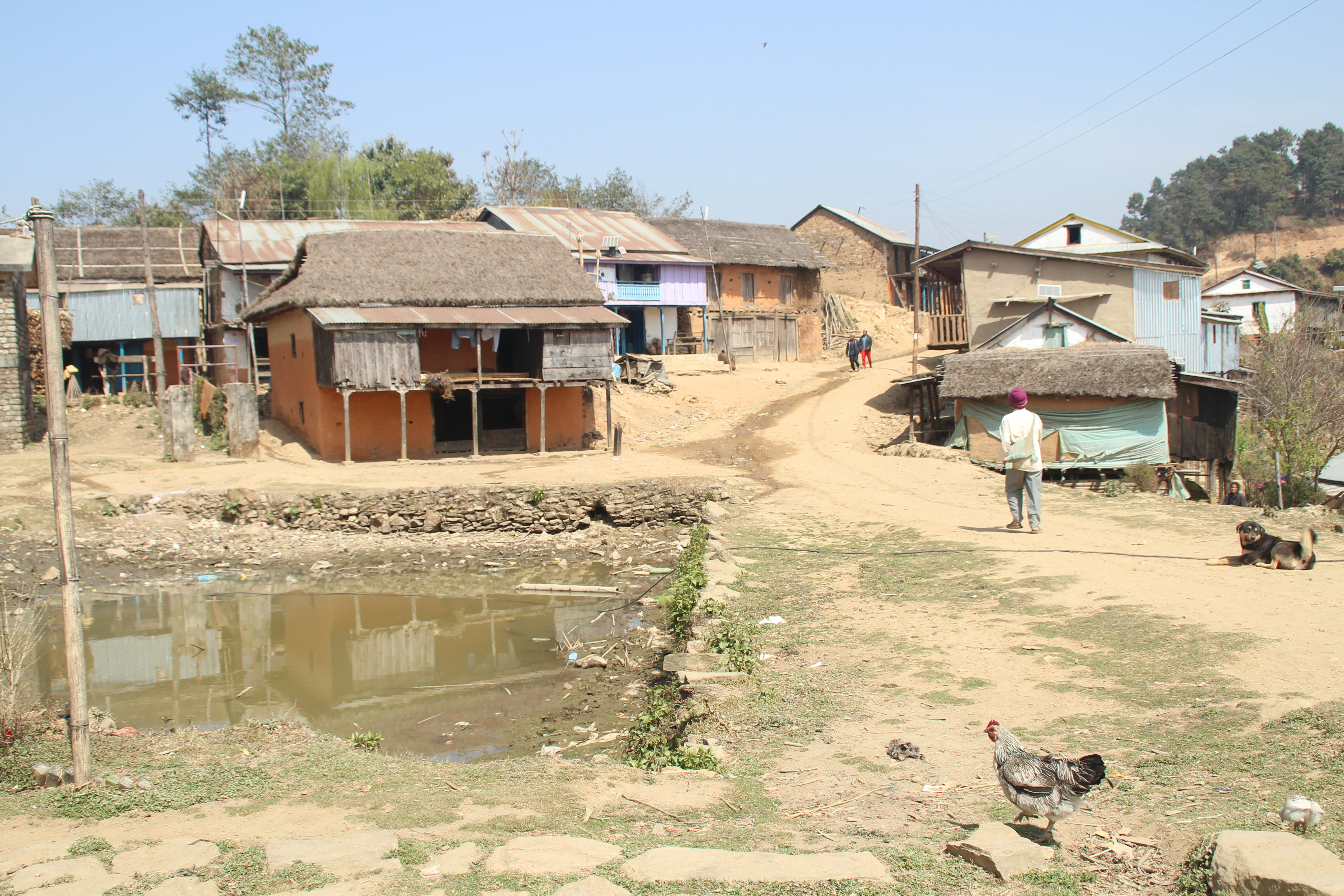 Padule pokhari is the landmark of Balankha